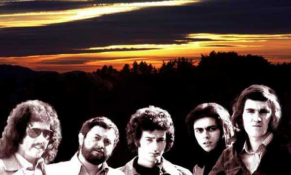 From Authorisation given by Alberto Moreno to use photos from the site for the Wikipedia article (see Museo Rosenbach page, talk page).